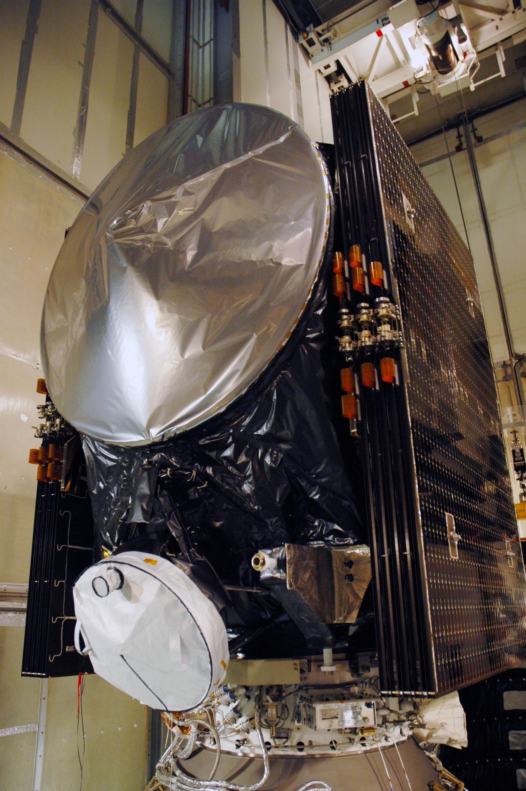 NASA's Dawn spacecraft waits for fairing encapsulation in the mobile service tower of Launch Pad 17-B at Cape Canaveral Air Force Station in Florida.